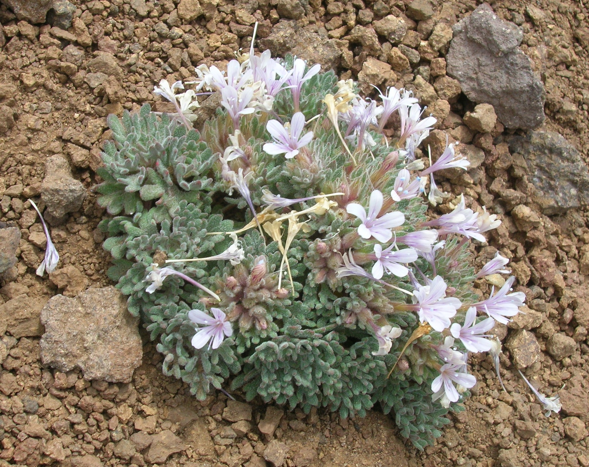 Collomia debilis Polemoniaceae Dicot alpine collomia Rainier Vista Trail 1155, Pierce County, Washington, USA Scree Slope Elevation ~ 6200 feet (1900 m.) 22 July 2006 i072206 334